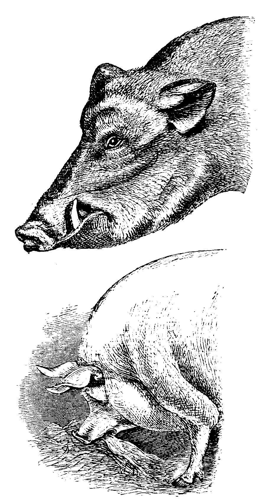 Head of Wild Boar, and of "Golden Days," a pig of the Yorkshire Large Breed